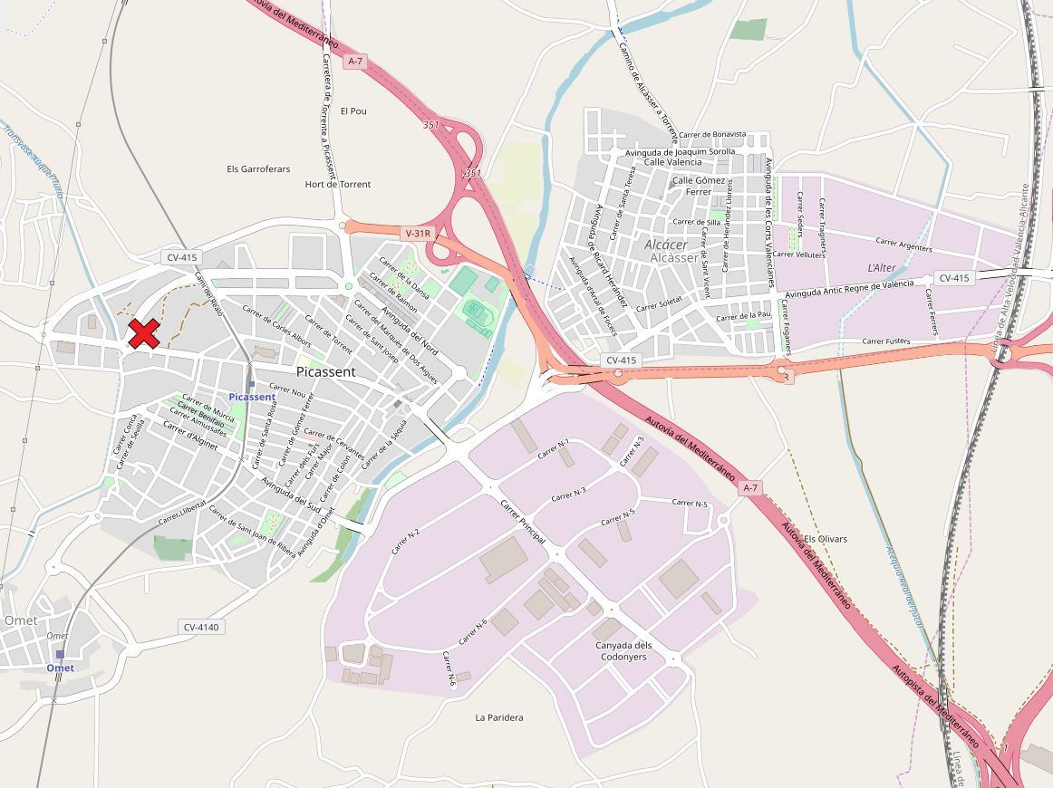 Discoteca Coolor placement This map may be incomplete, and may contain errors. Don't rely solely on it for navigation.